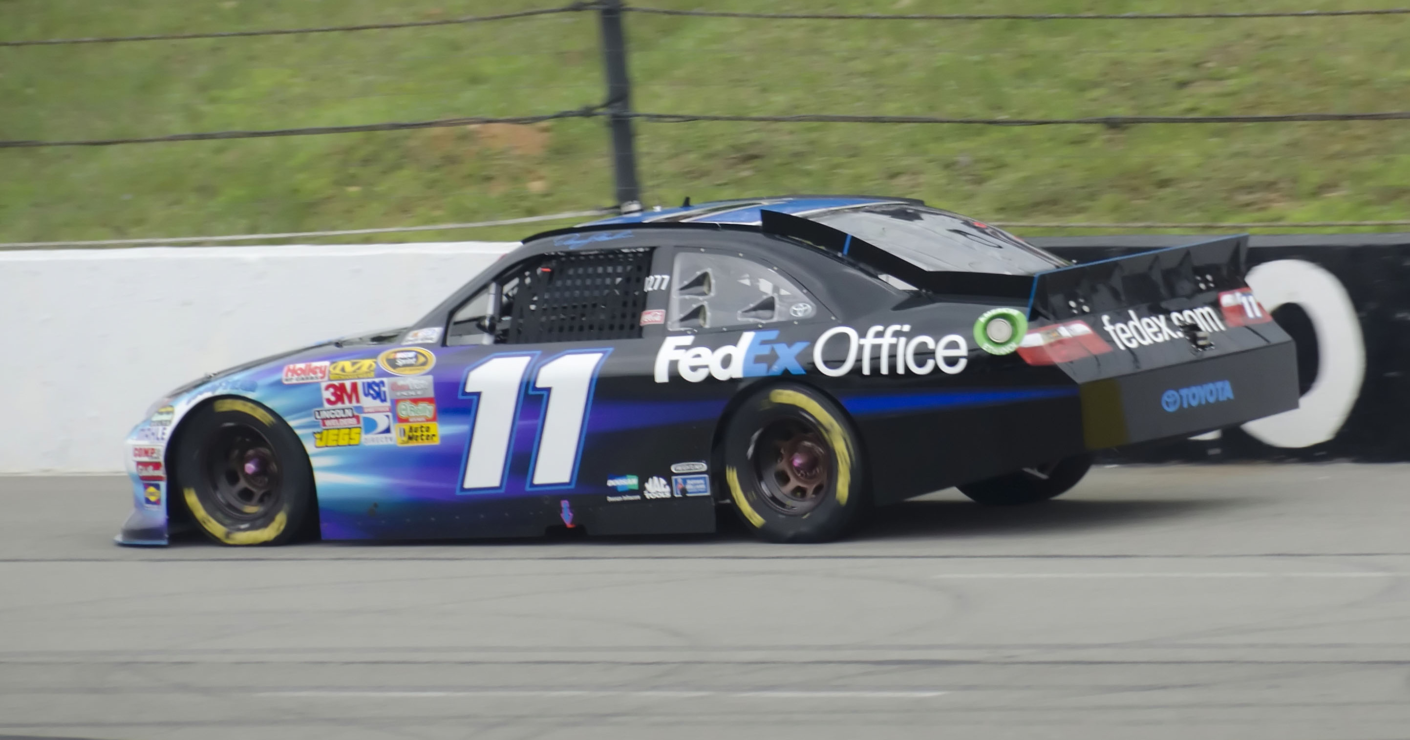 Denny Hamlin's No. 11 FedEx Office Toyota at Pocono Raceway in 2011